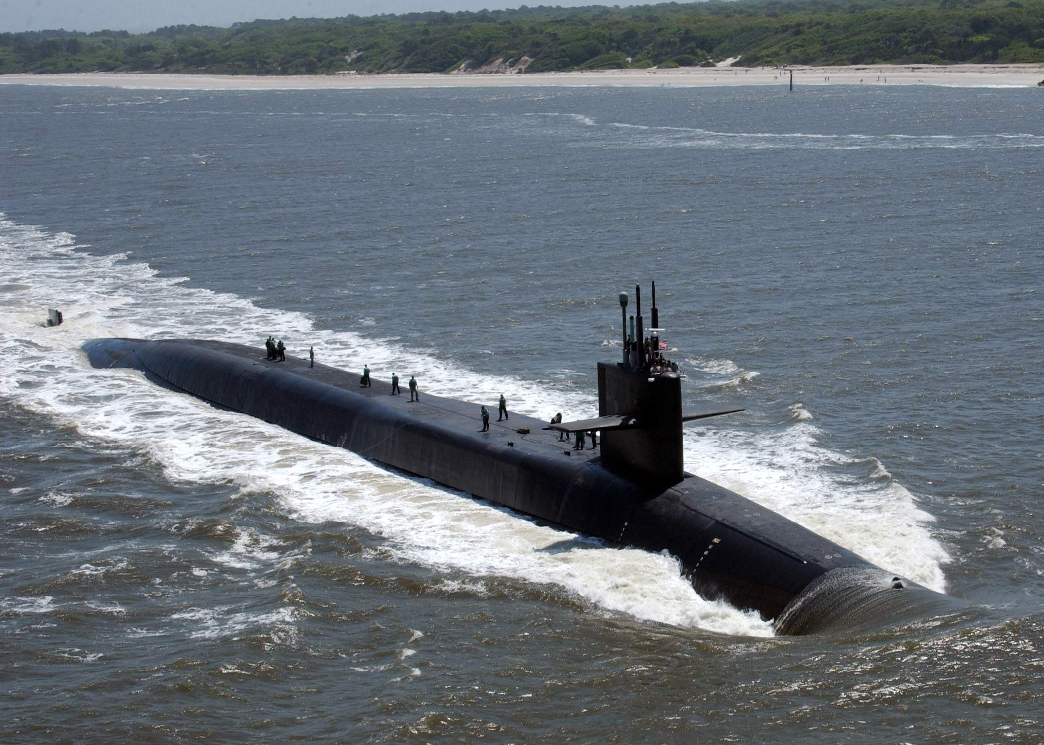 The guided missile submarine Florida (SSGN-728) makes her way through Cumberland Sound to Naval Submarine Base Kings Bay, 11 April 2006. Florida will be officially welcomed to her new home in Kings Bay with a return to service ceremony scheduled for May 25, 2006 in Mayport, Fla.